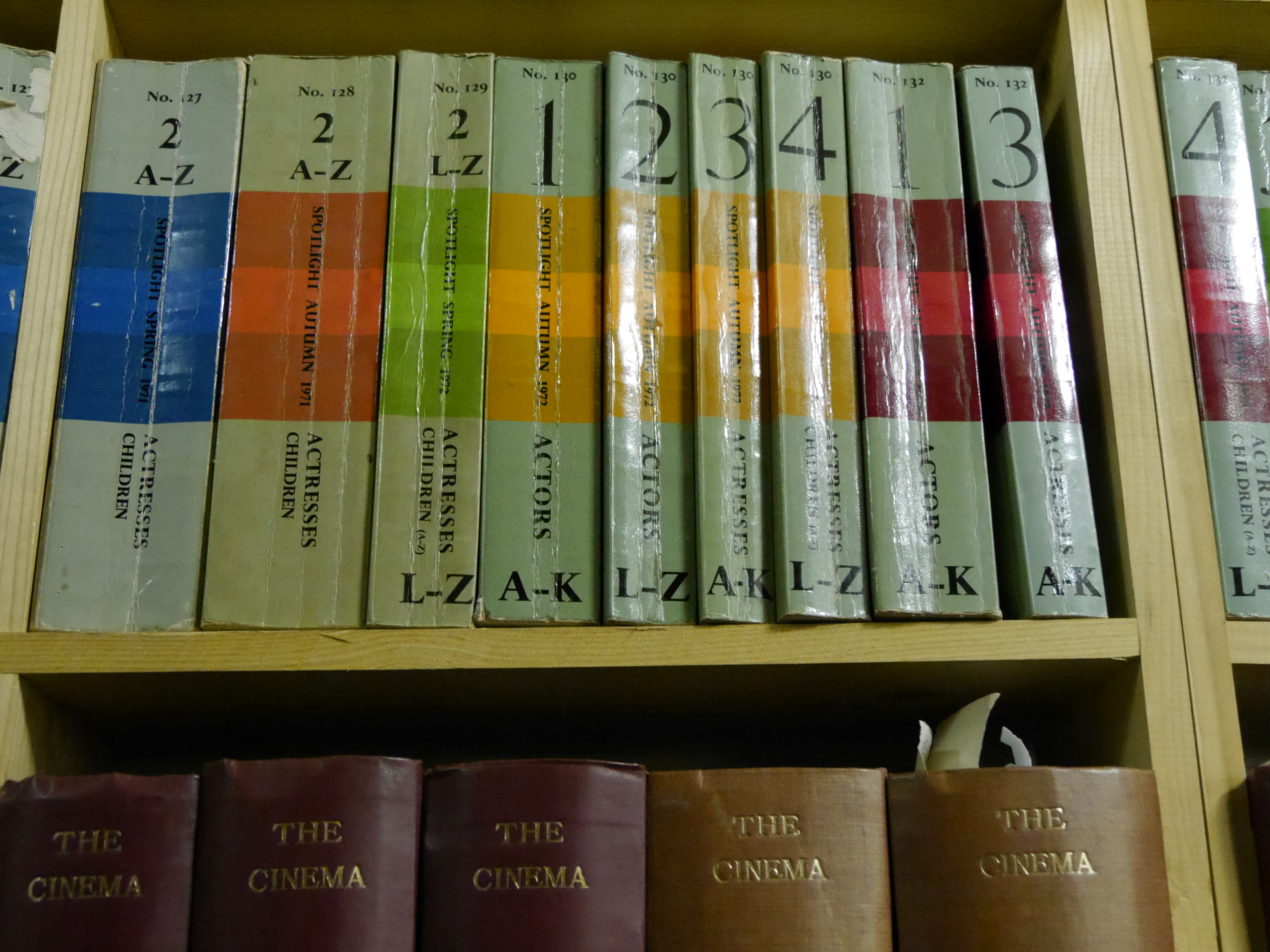 Cinema Museum, London object